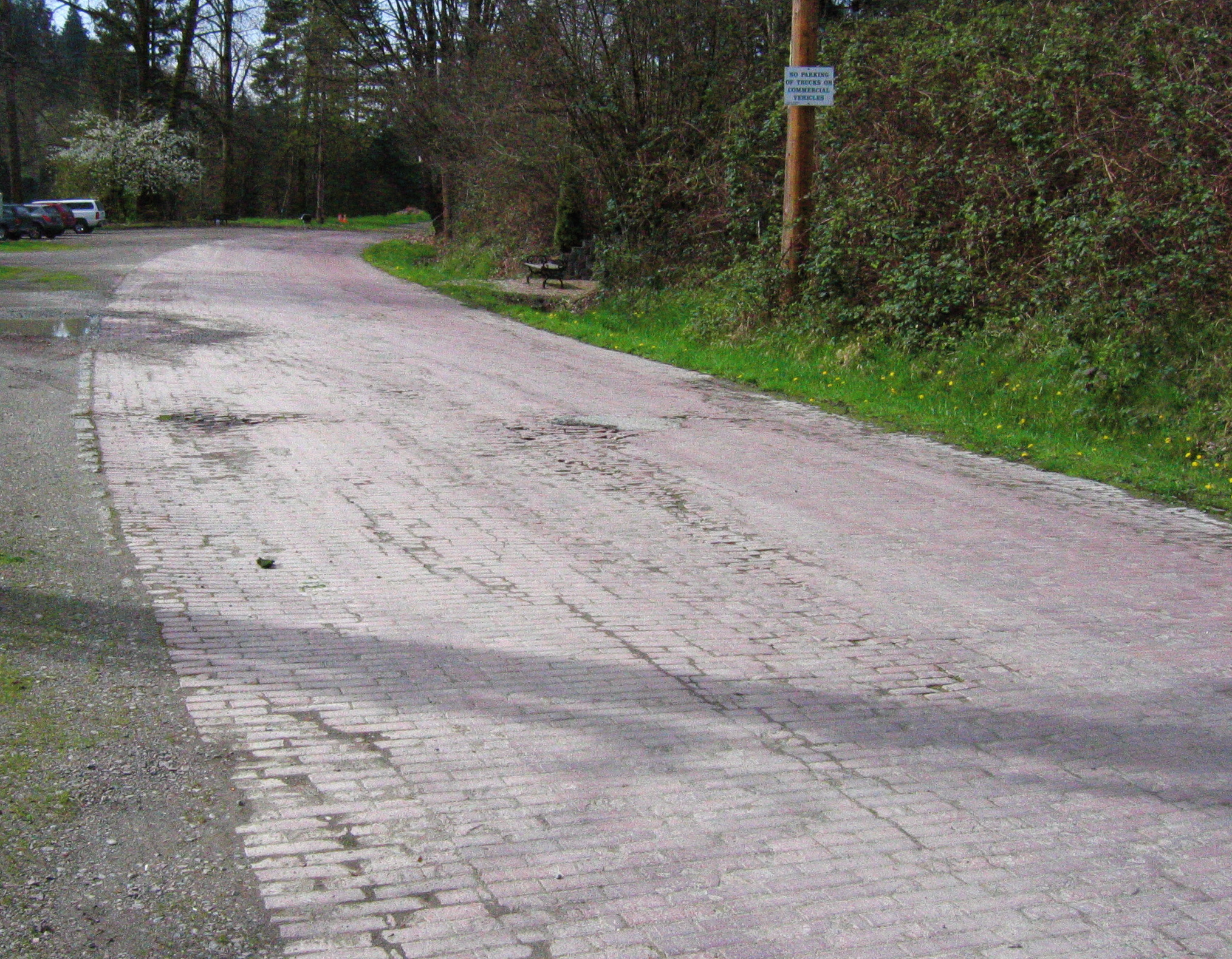 The surviving fragment of the old Red Brick Road (now SR-522) in Bothell, near Kenmore